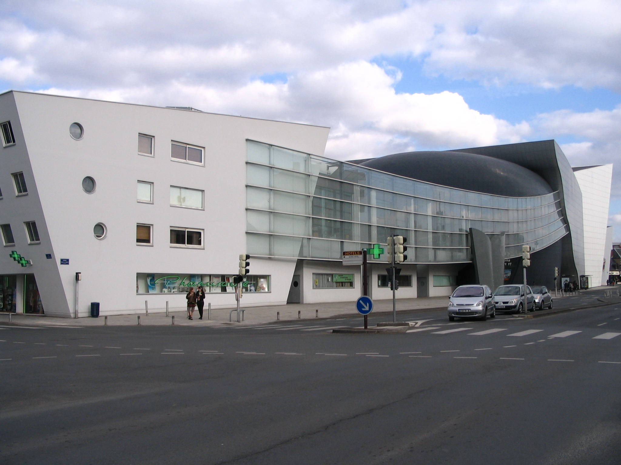 The Equinoxe theater, in Châteauroux, Indre, France.